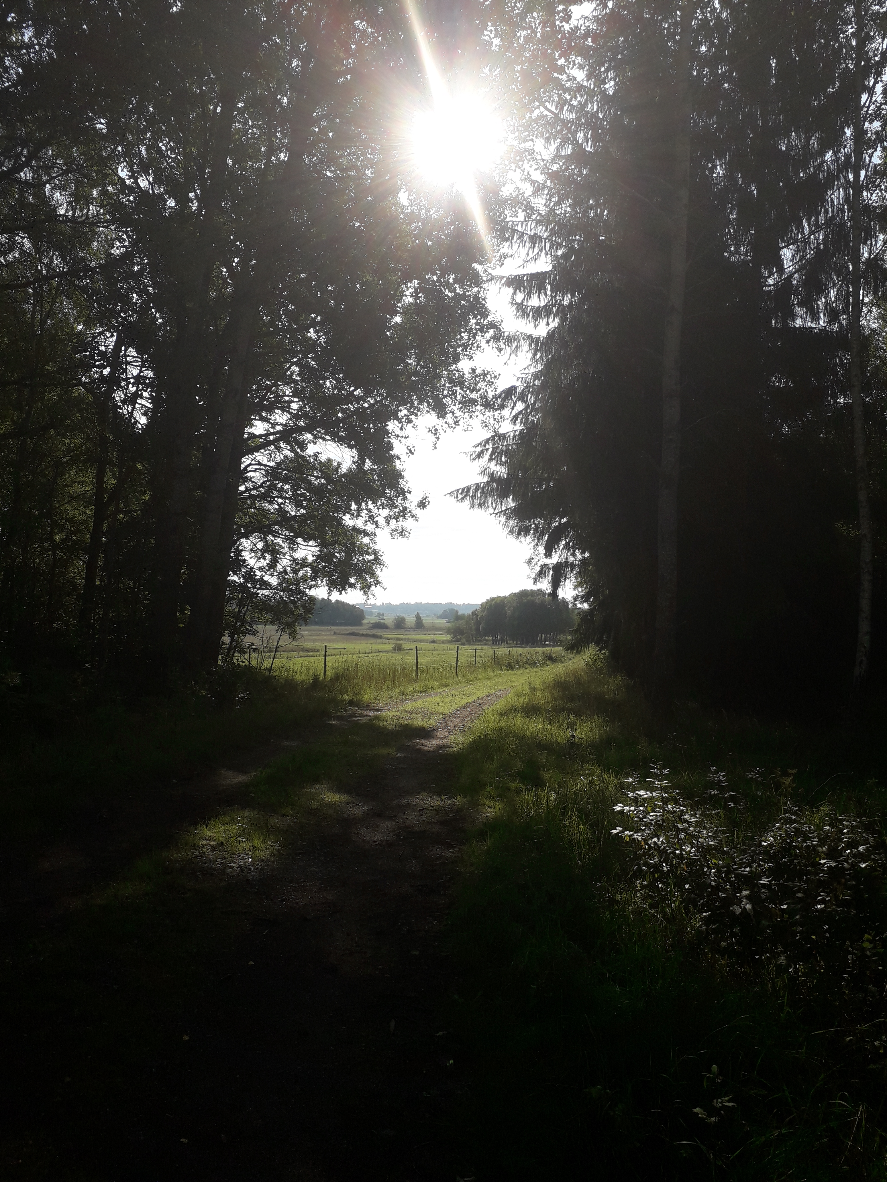 Lundbyskogen Kåvi